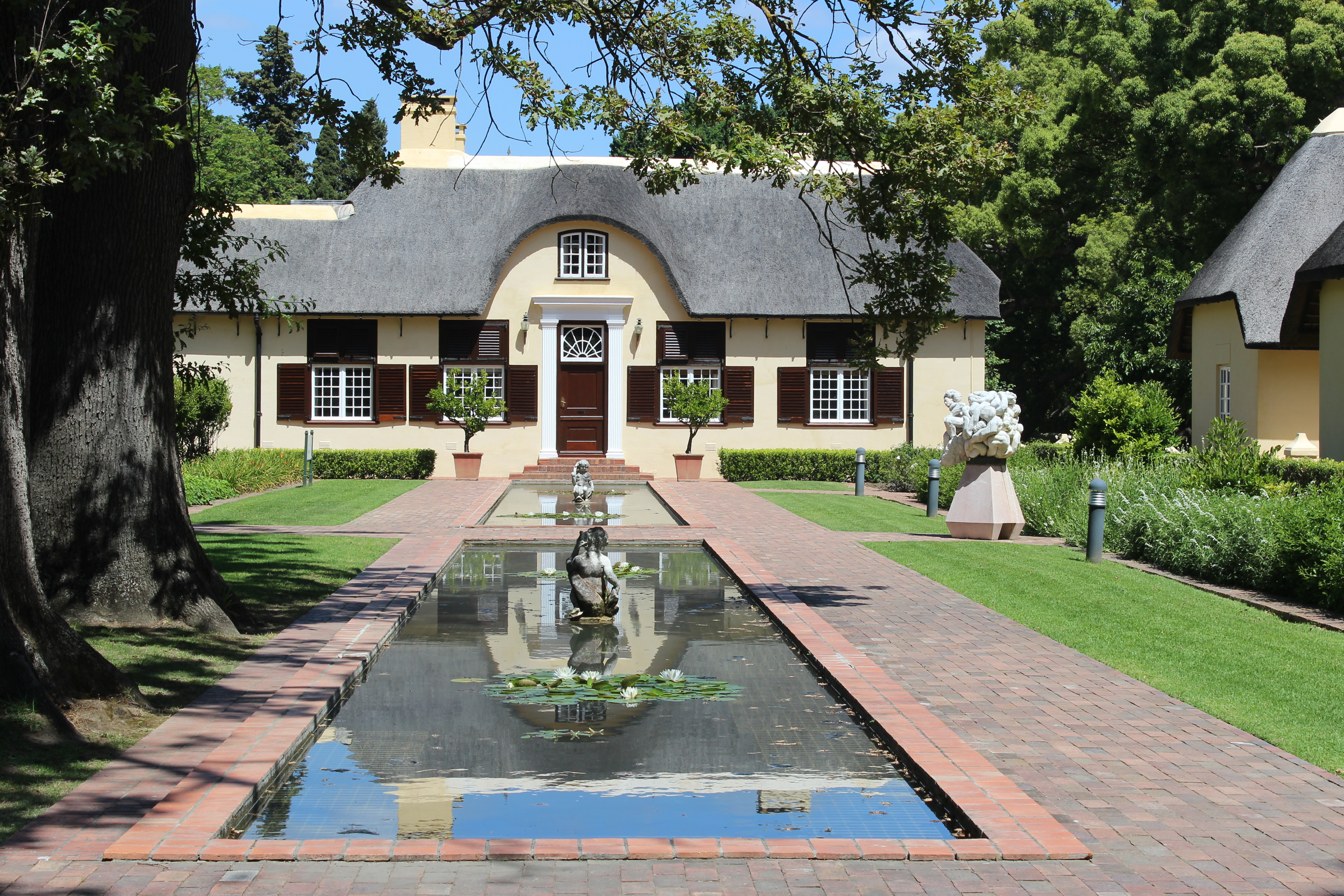 Vergelegen Homestead North Wing. The building of the homestead dates fromn the early 1700s This media shows a South African Protected Site with SAHRA file reference 9/2/083/0010See also: External entry in South African Heritage Resource Agency database.